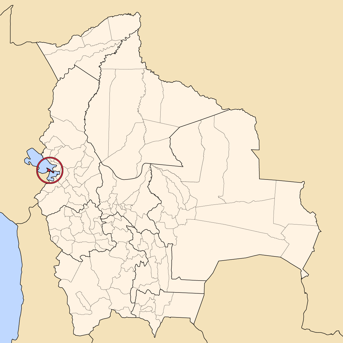 Map of Bolivia showing Manco Kapac province, La Paz